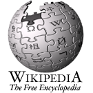 original description: "new version of Nohat puzzle sphere"